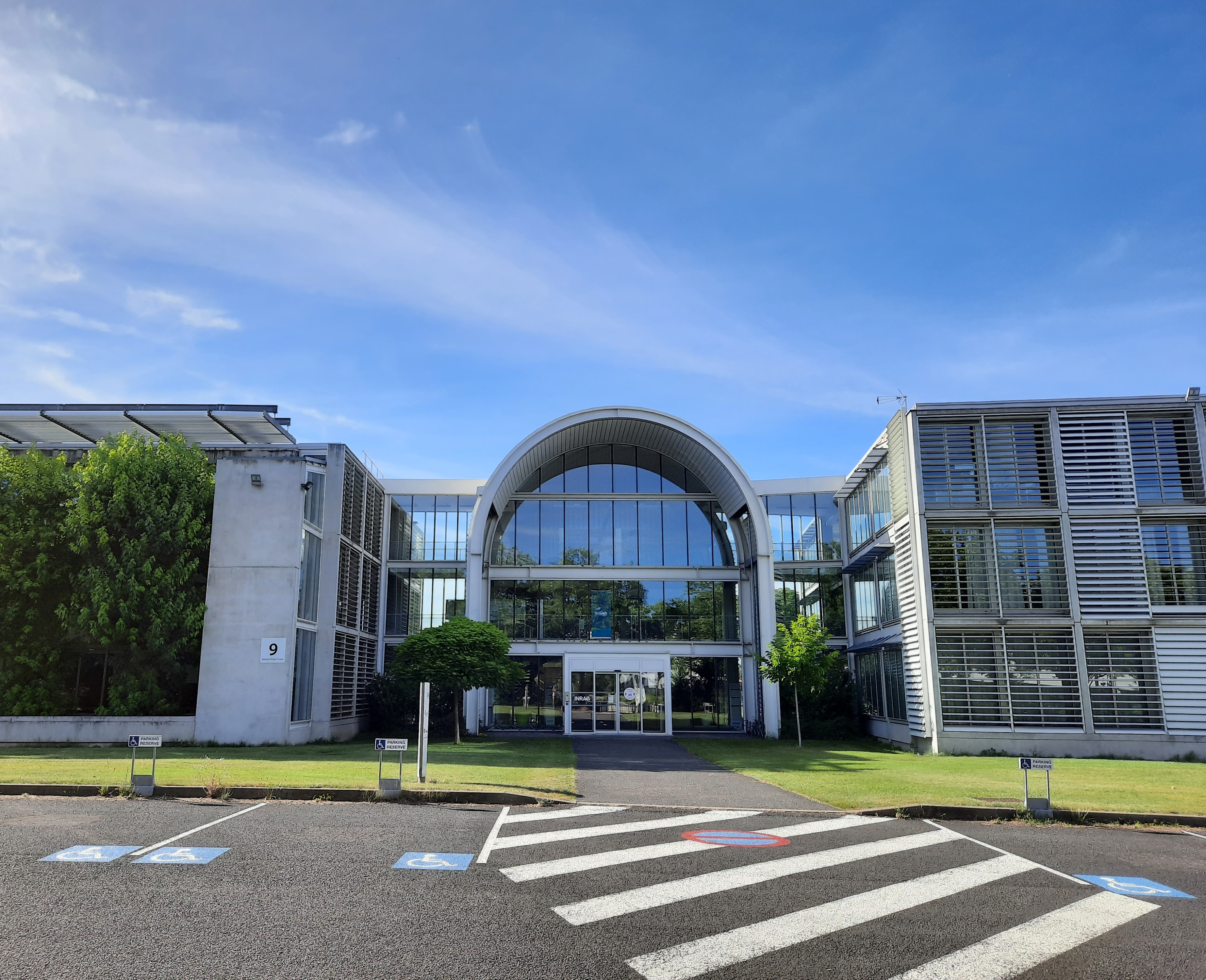 Entrance hall of the INRAE's center of Clermont-Ferrand (France).